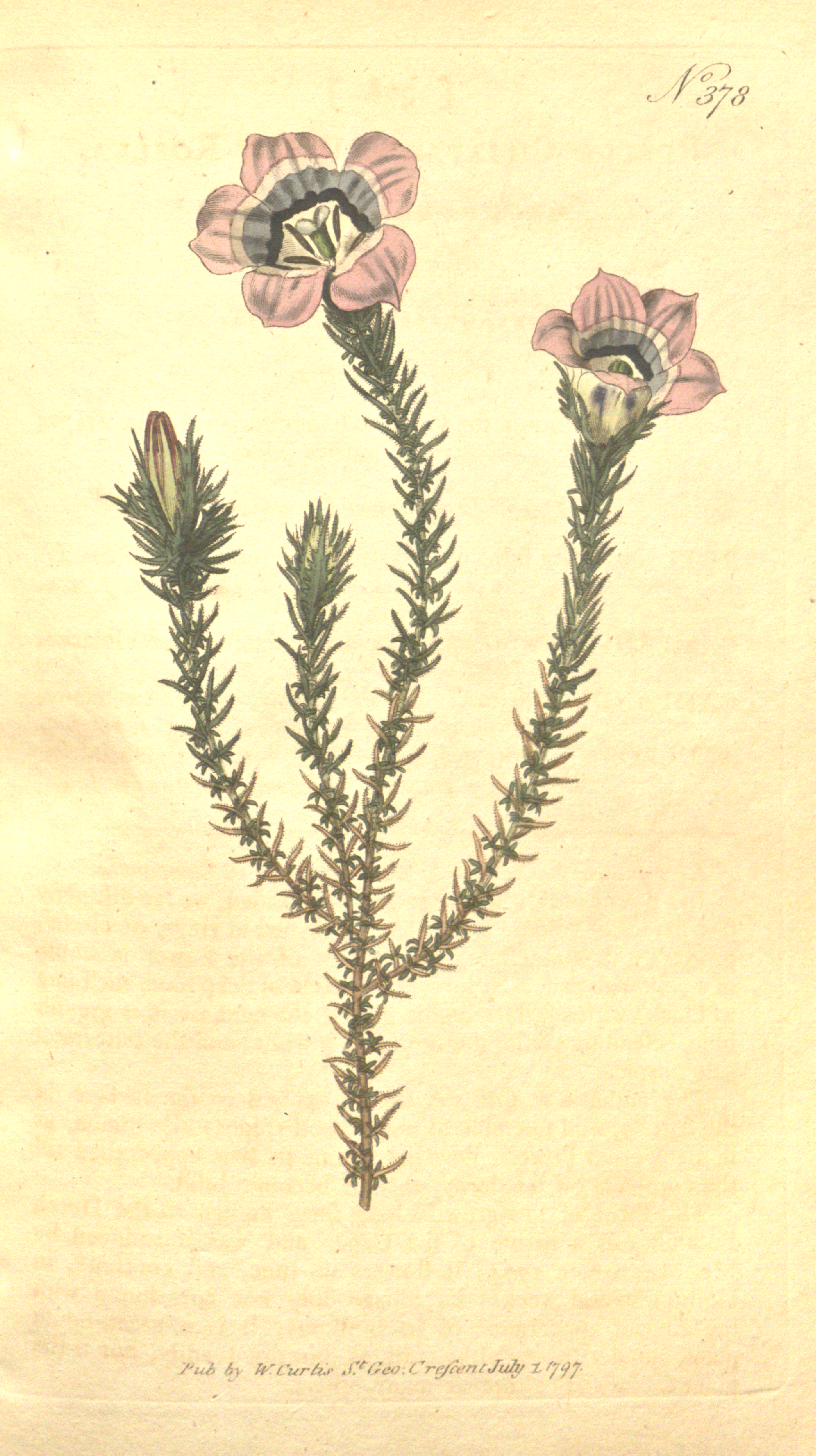 This is a plate from The Botanical Magazine, Volume 11.